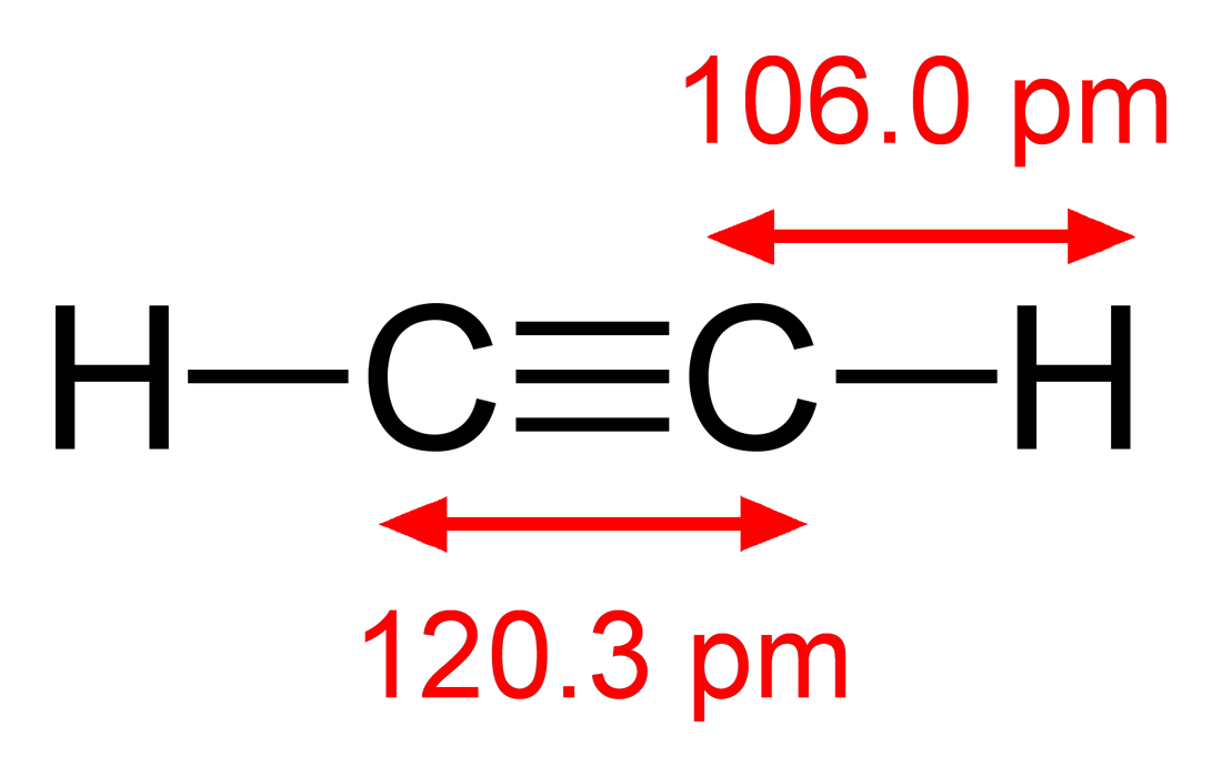 Structural formula of the acetylene (ethyne) molecule, C2H2. The molecule belongs to the D∞h point group. Structural information (determined by infrared spectroscopy) from CRC Handbook, 88th edition.